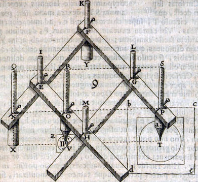 Pantograph, from Book Pantographice seu ars delineandi, Page 29